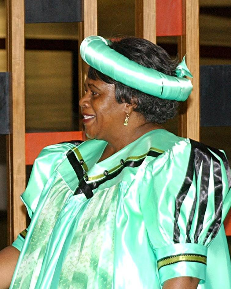 Inonge Mbikusita-Lewanika, non-resident Ambassador of Zambia to Brazil presented his credentials to Luiz Inácio Lula da Silva, President of Brazil.